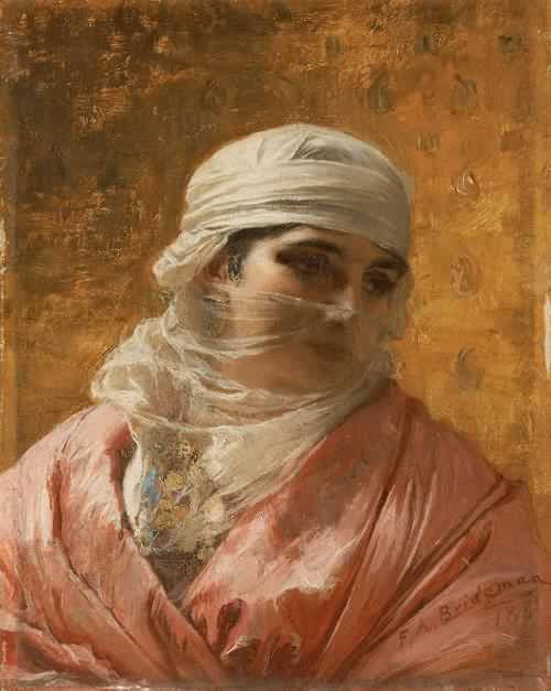 A Circassian